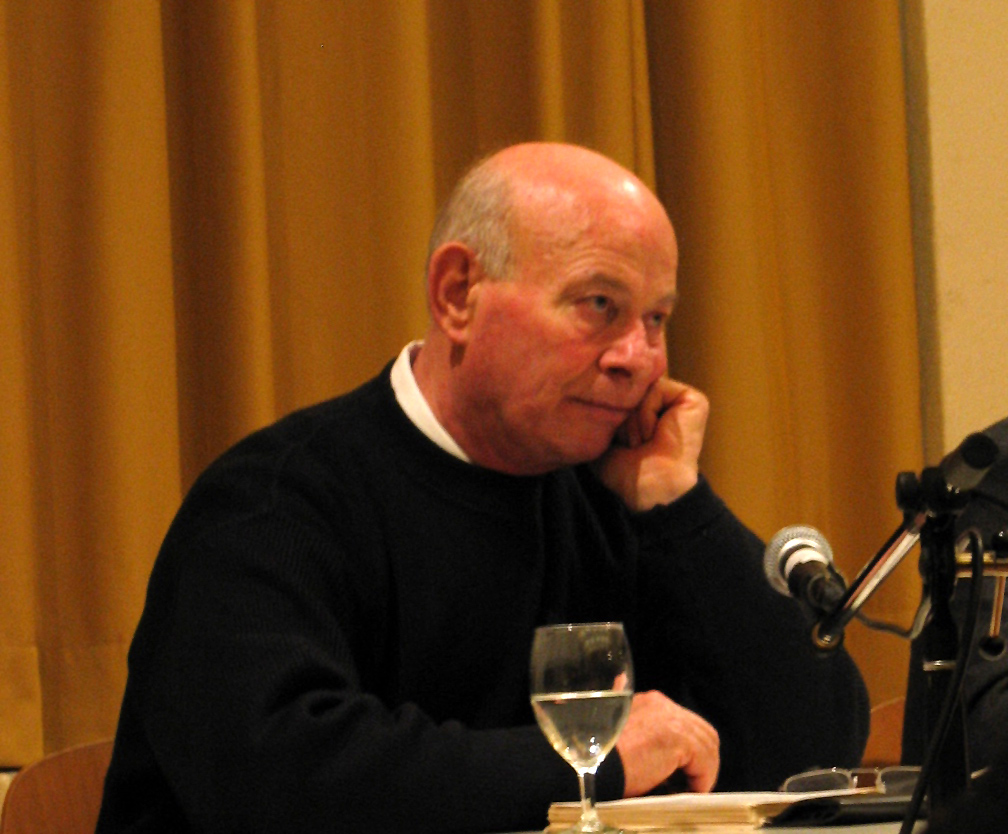 Fatos Kongoli on reading in Zurich.